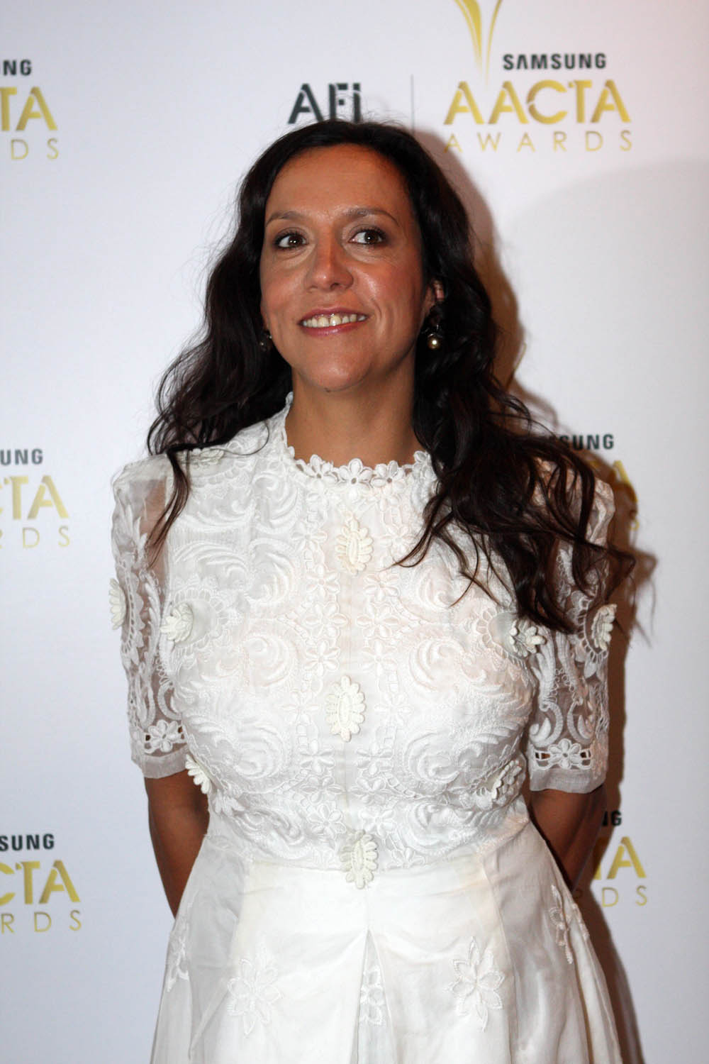 Rachel Perkins, 2012, AACTA Awards Results From Sydney, Australia.